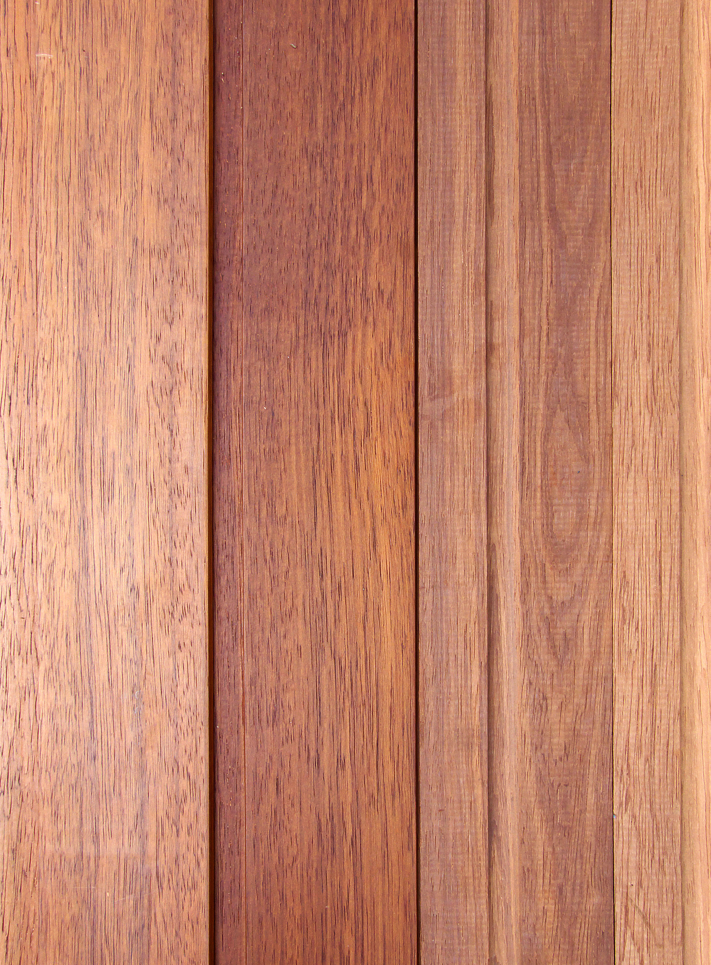 Angélique